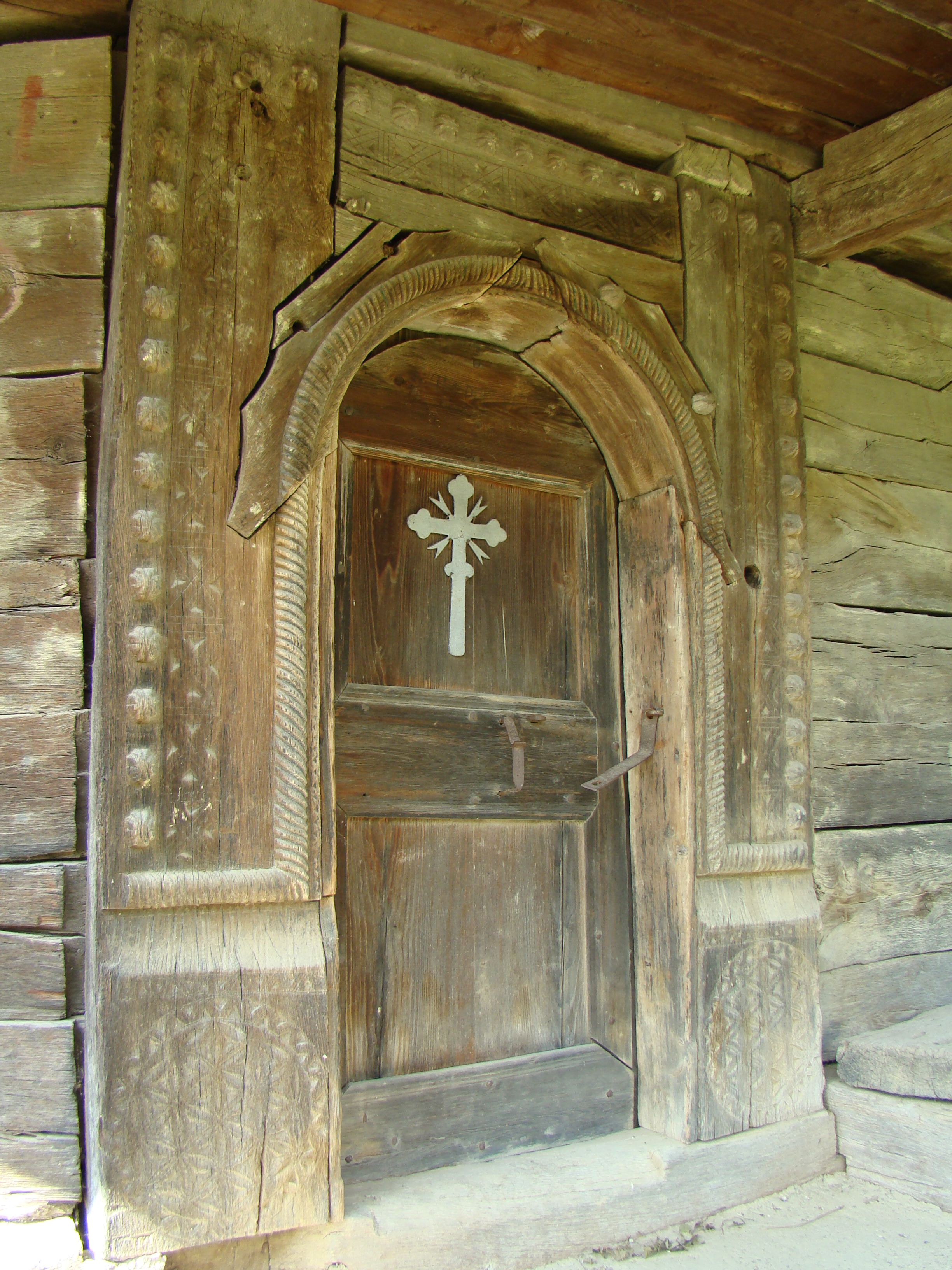 Wooden church in Strugureni, Bistrița-Năsăud county